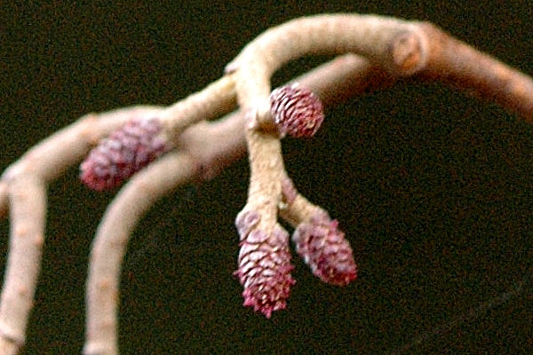 Alnus glutinosa from Commanster, Belgian High Ardennes .